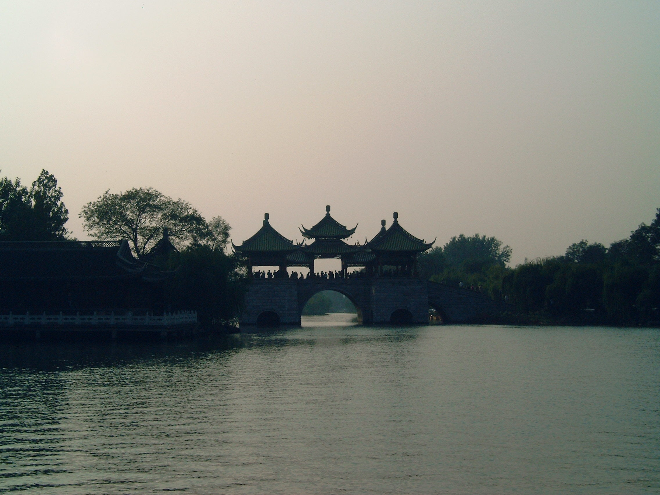 The Five Pavilion Bridge in Thin West Lake is a landmark in Yangzhou.